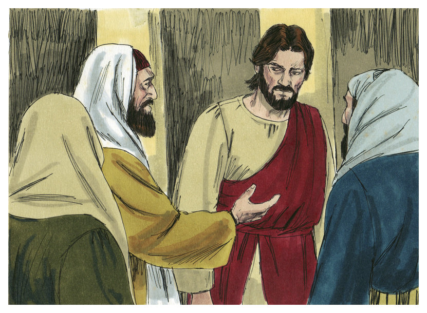 Biblical illustration of Gospel of Matthew Chapter 22